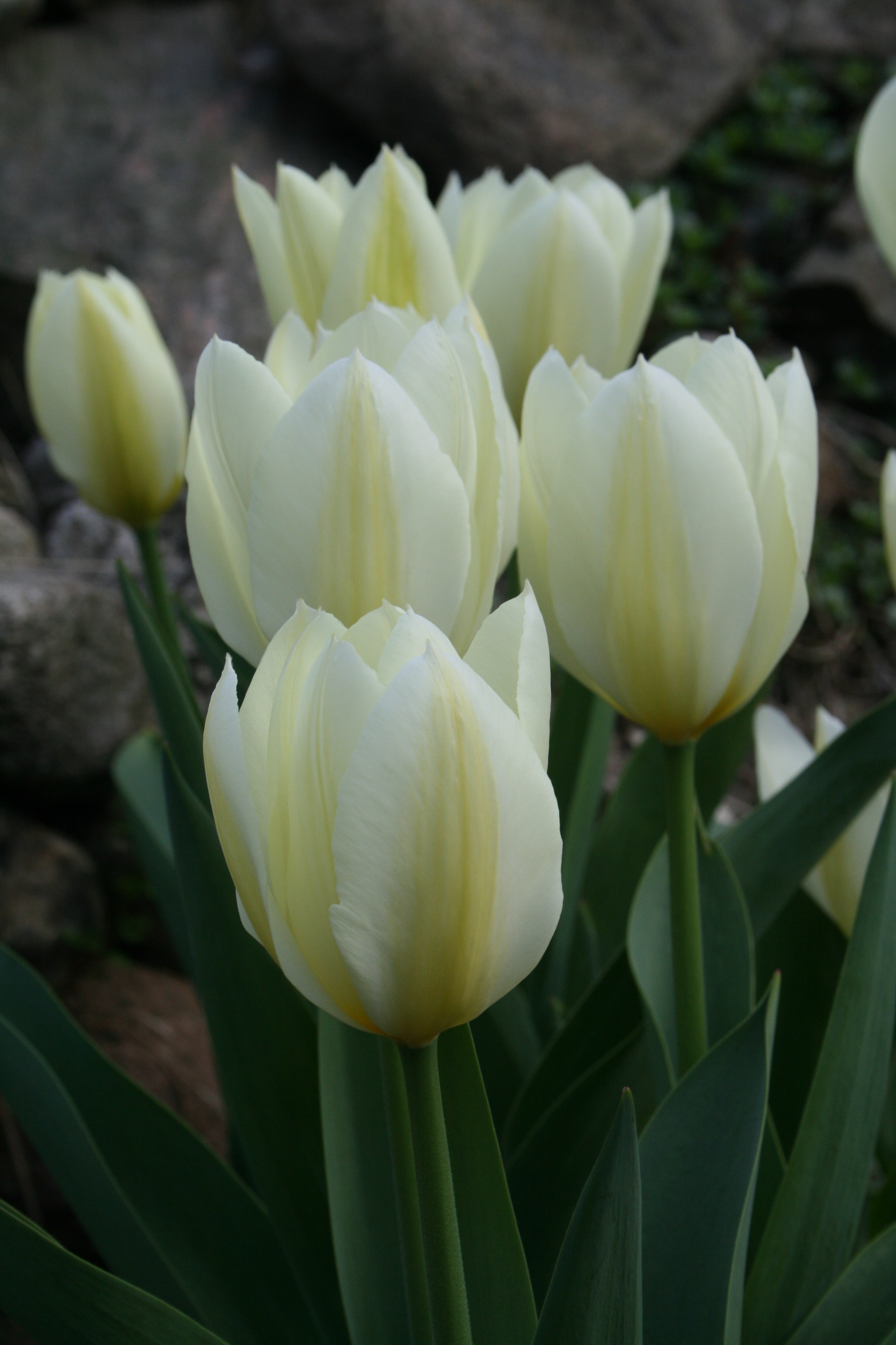 Tulipa 'Purissima'